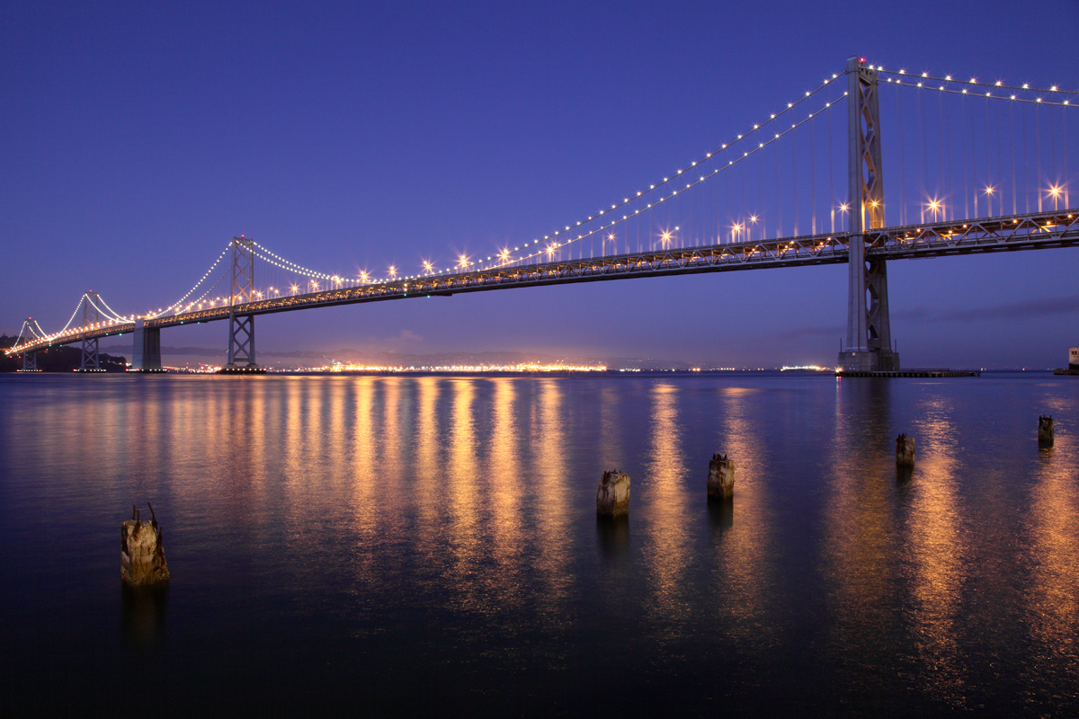 San Francisco Oakland Bay Bridge at night